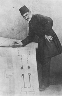 Iranian Architect, Mirza-Mehdi Shaghaghi